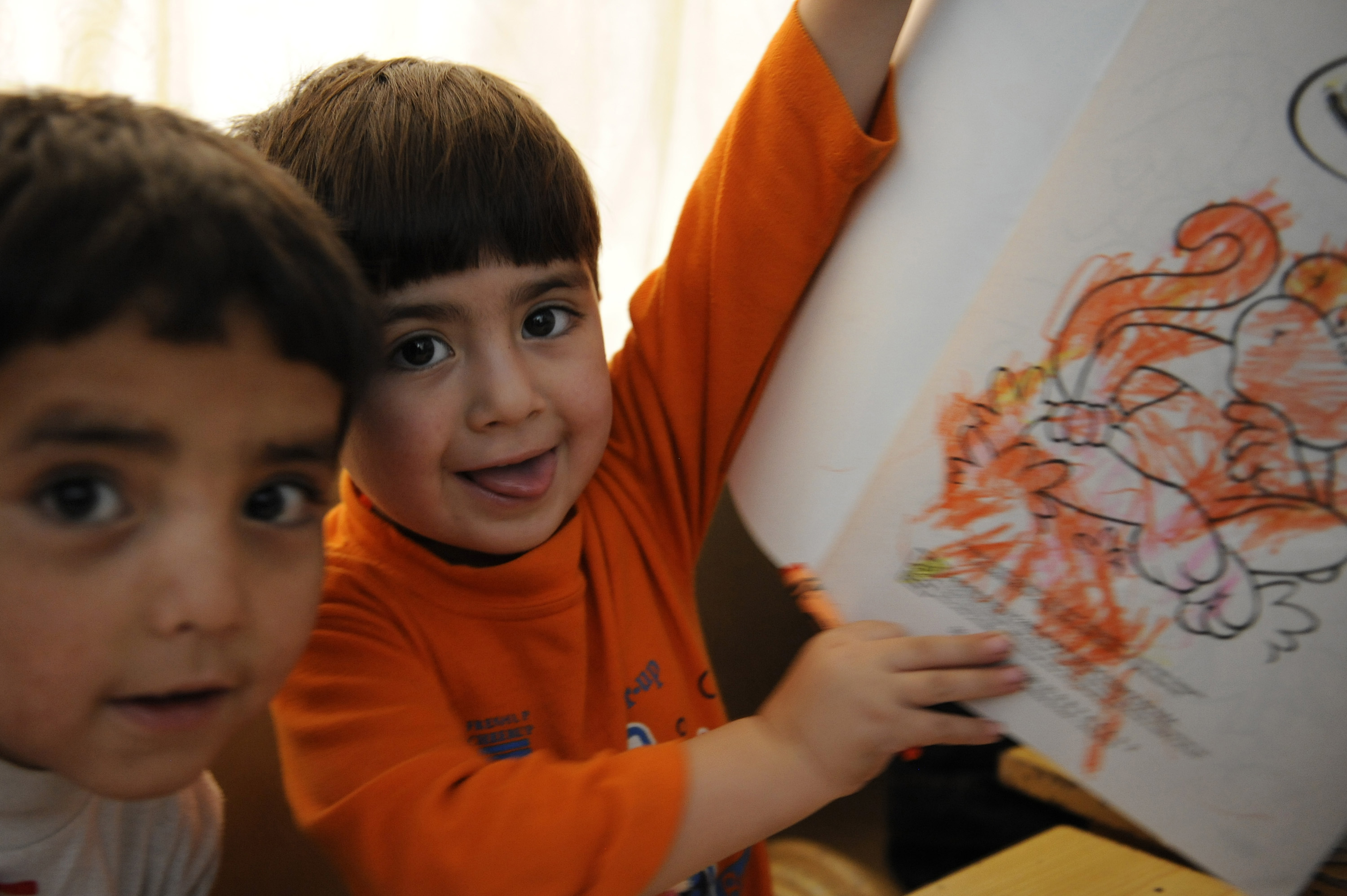 Two Afghan boys smile and show their drawings at a daycare within the Afghanistan Ministry of Defense during a Volunteer Community Relations visit on July 16. Combined Security Transition Command - Afghanistan chaplains and volunteers distribute coloring books, crayons, paper and pencils and other school supplies to children in the Kabul area.